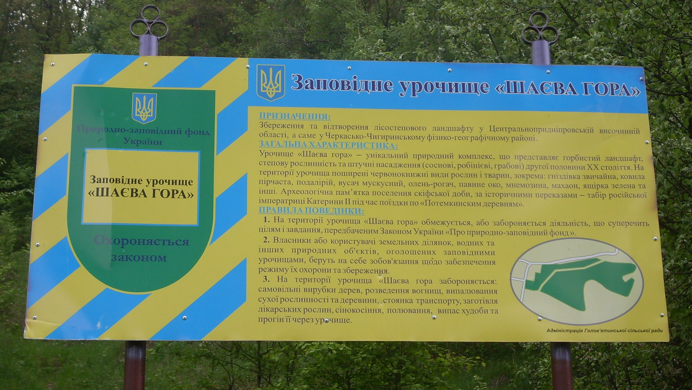 The local nature protected area "Shaeva gora" (Smila district, Cherkasy region, Ukraine)